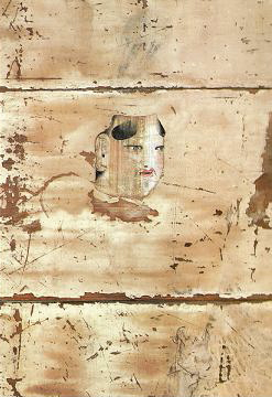 Honden paintings, Yaegaki Jinja, Matsue, Shimane, Japan